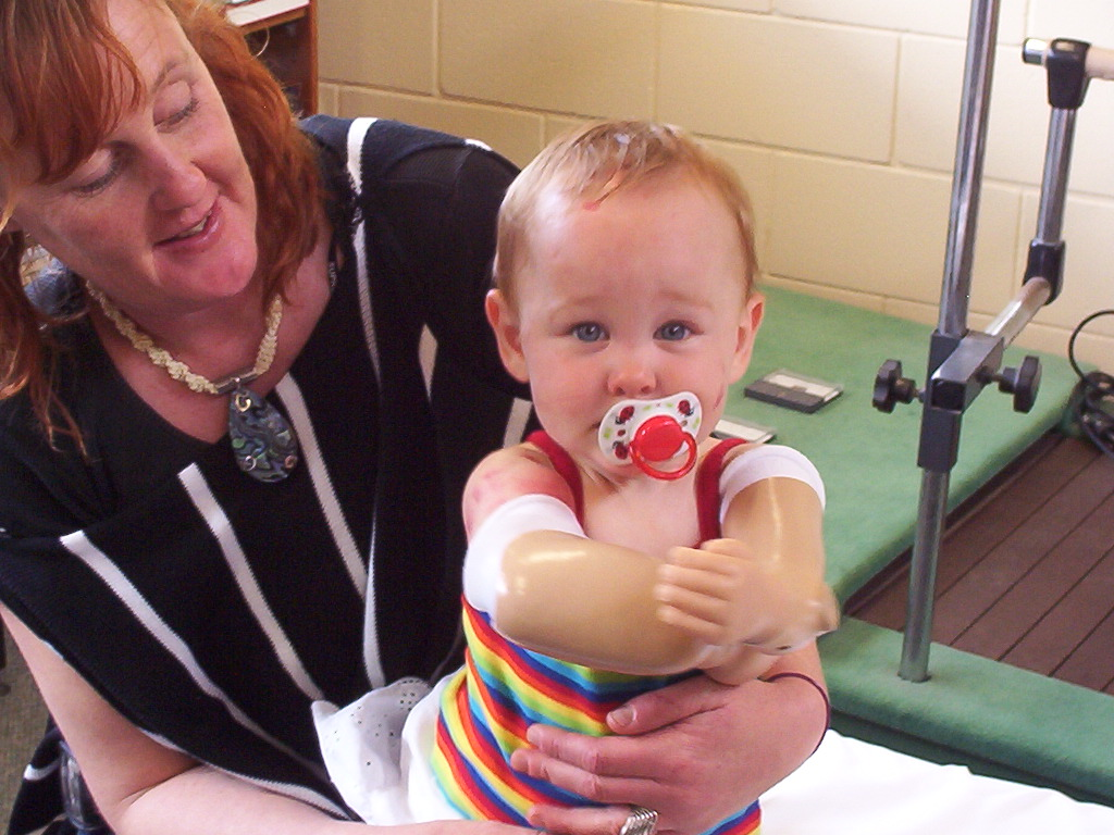 Charlotte Cleverley-Bisman with mother, Pam Cleverley, demonstrating artificial limbs